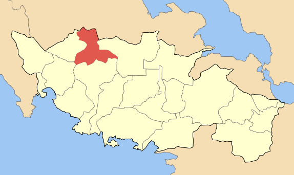 Locator map of Heroneias municipality (Δήμος Χαιρώνειας) at Voiotias perfecture, Greece.